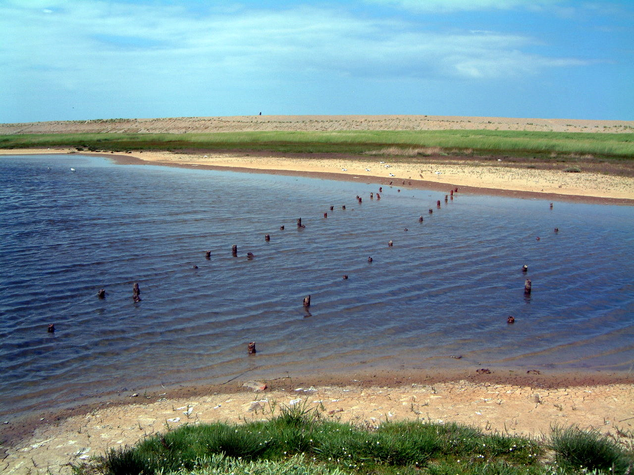 Remains of WW2 anti tank defence at Salthouse North Norfolk England.